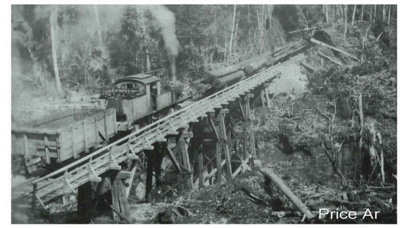 Price Ar No 115 working at Port Craig for the Marlborough Timber Co